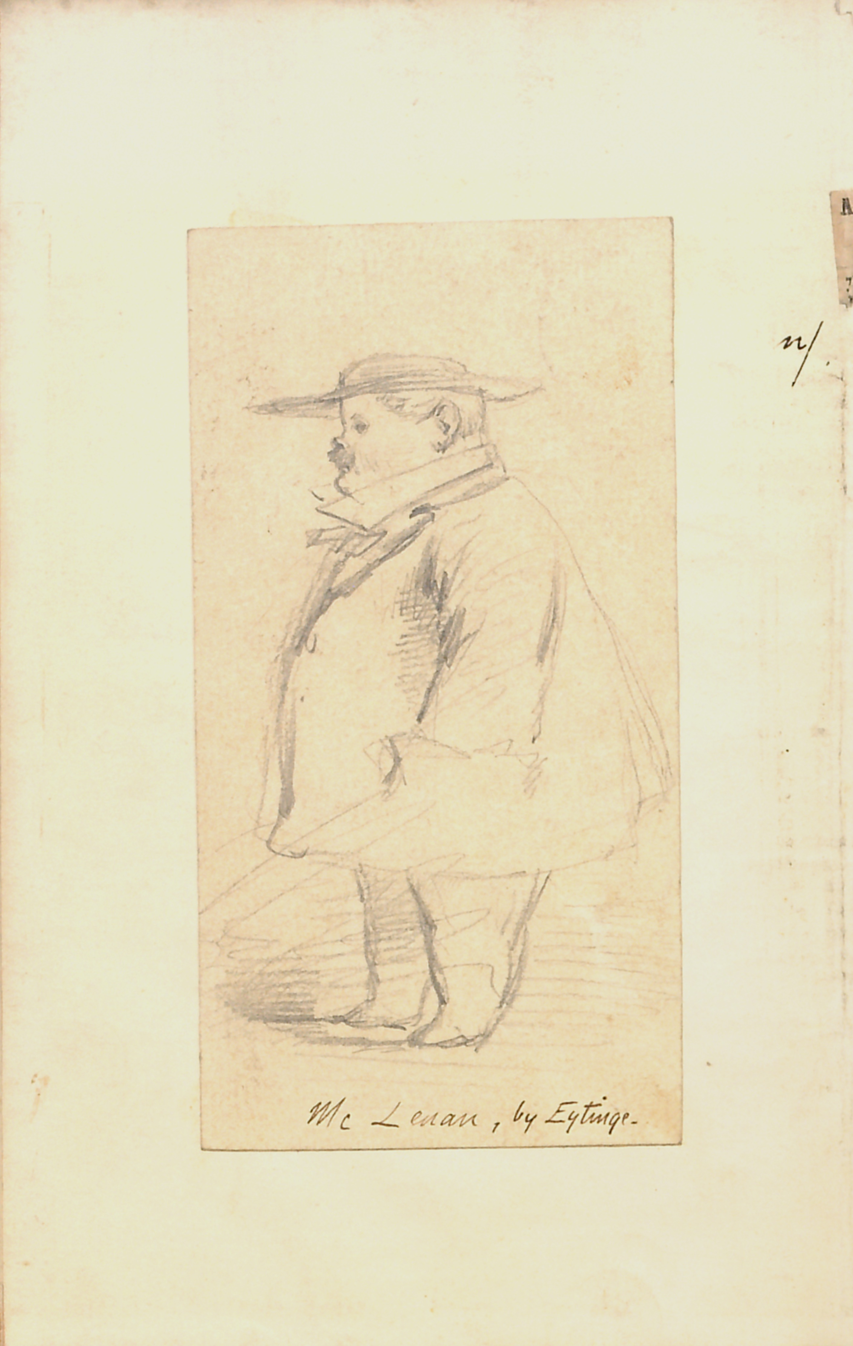 Pencil sketch of McLenan [John McLenan], as drawn by Solomon Eytinge.Title: Thomas Butler Gunn Diaries: Volume 18, page 6, approximately 1862